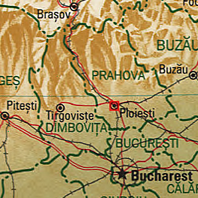 Map of Ploiești Municipality, Romania.